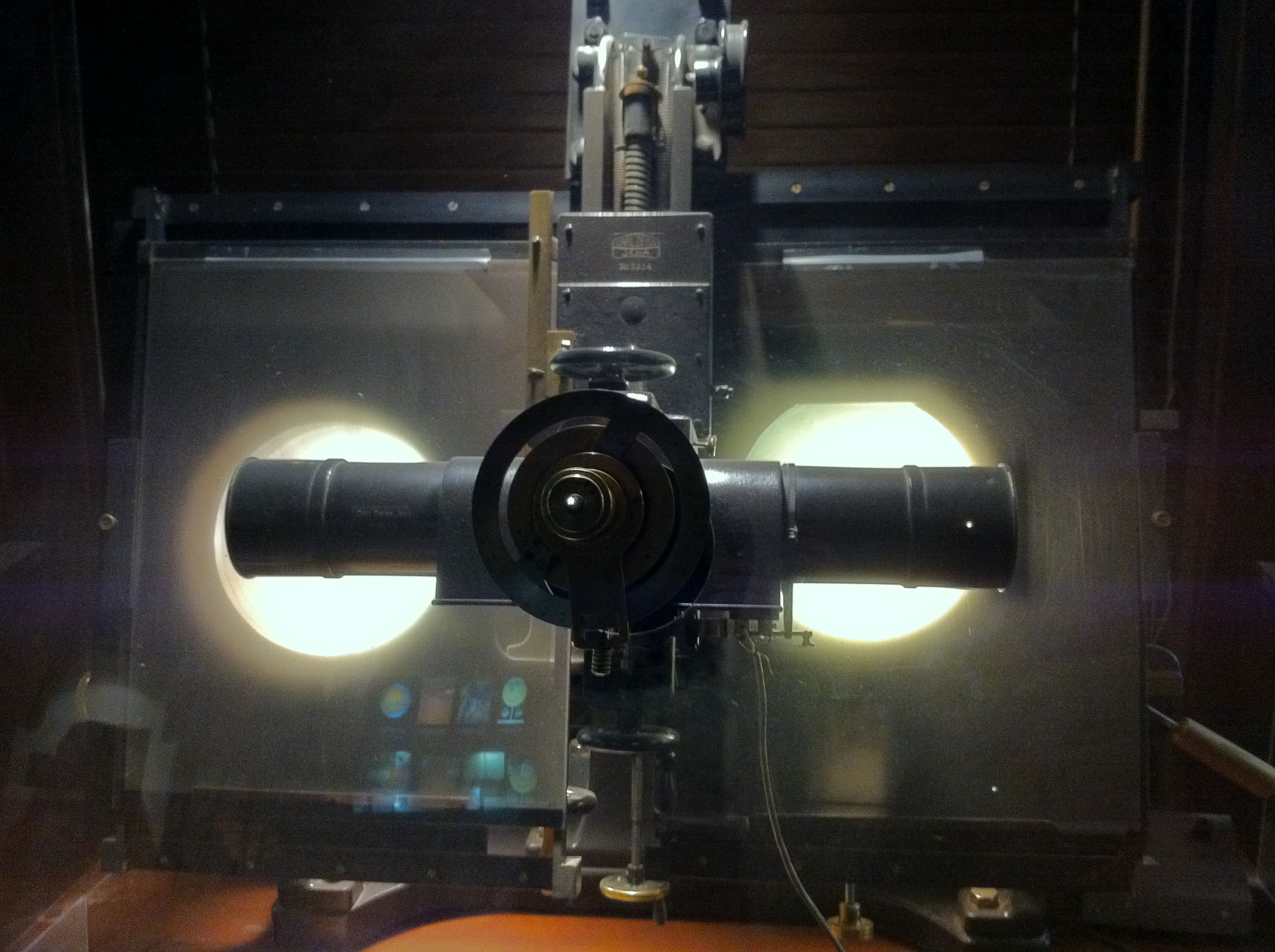 this zeiss blink comparator was used at the lowell observatory by clyde tombaugh in 1930 to discover 134340 pluto, a dwarf planet.